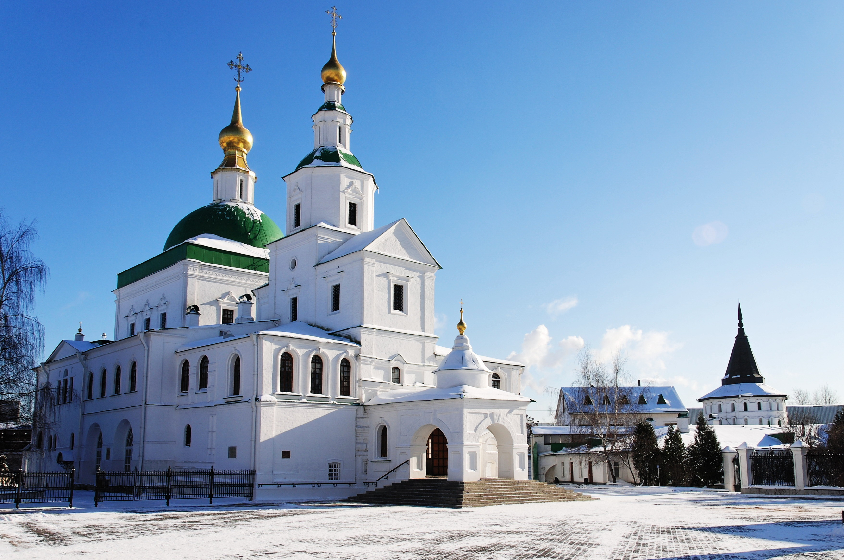 St. Daniel Monastery in Kozhuhovo, Moscow.